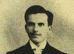 Photograph of Ali Sami Yen